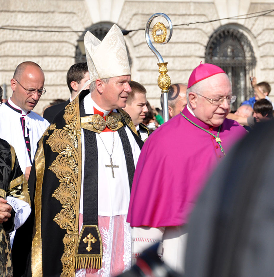 Cardinal Schönborn and the papal nuncio to Austria, Archbishop Peter Stephan Zurbriggen